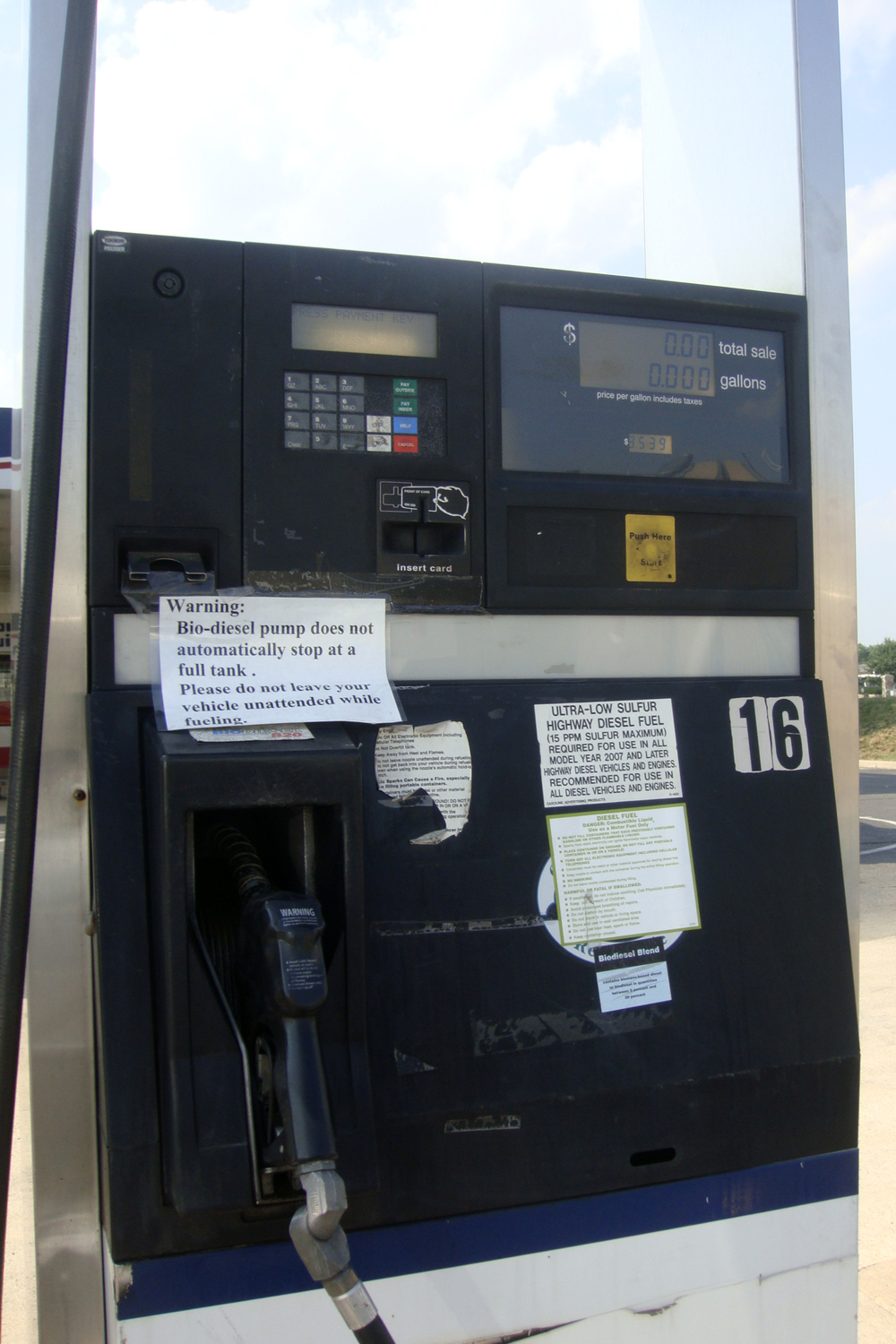 U.S. biodiesel (B20) pump near Pentagon City, Arlington, Virginia